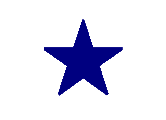 Union Army, XII Corps - Army of the Potomac, 3rd Division Badge